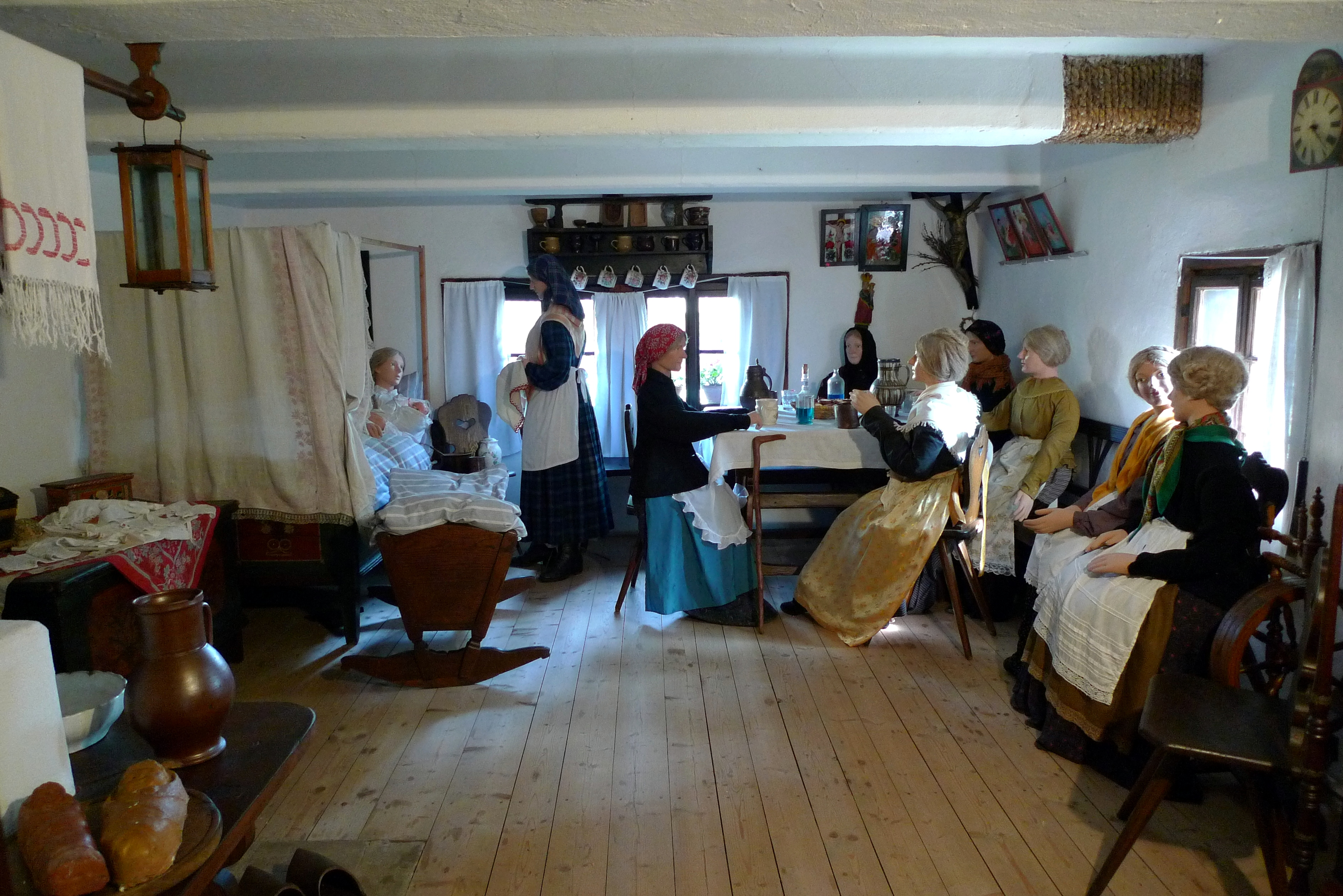 Open air museum in Přerov nad Labem, Czech Republic Česky: Skanzen polabské architektury Přerov nad Labem - interiér expozice